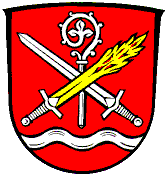 Coat of Arms of Buxheim